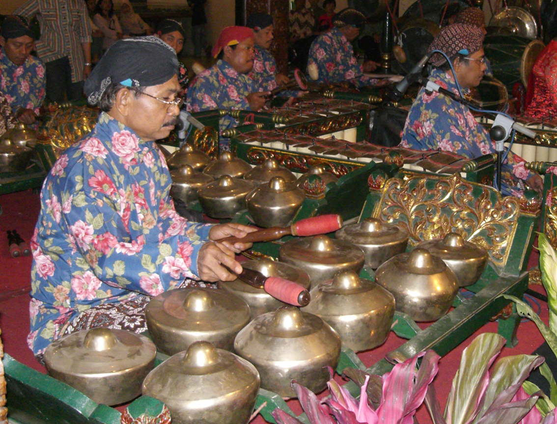 A gamelan player playing bonang. Gamelan Yogyakarta style during a Javanese wedding in Taman Mini Indonesia Indah.